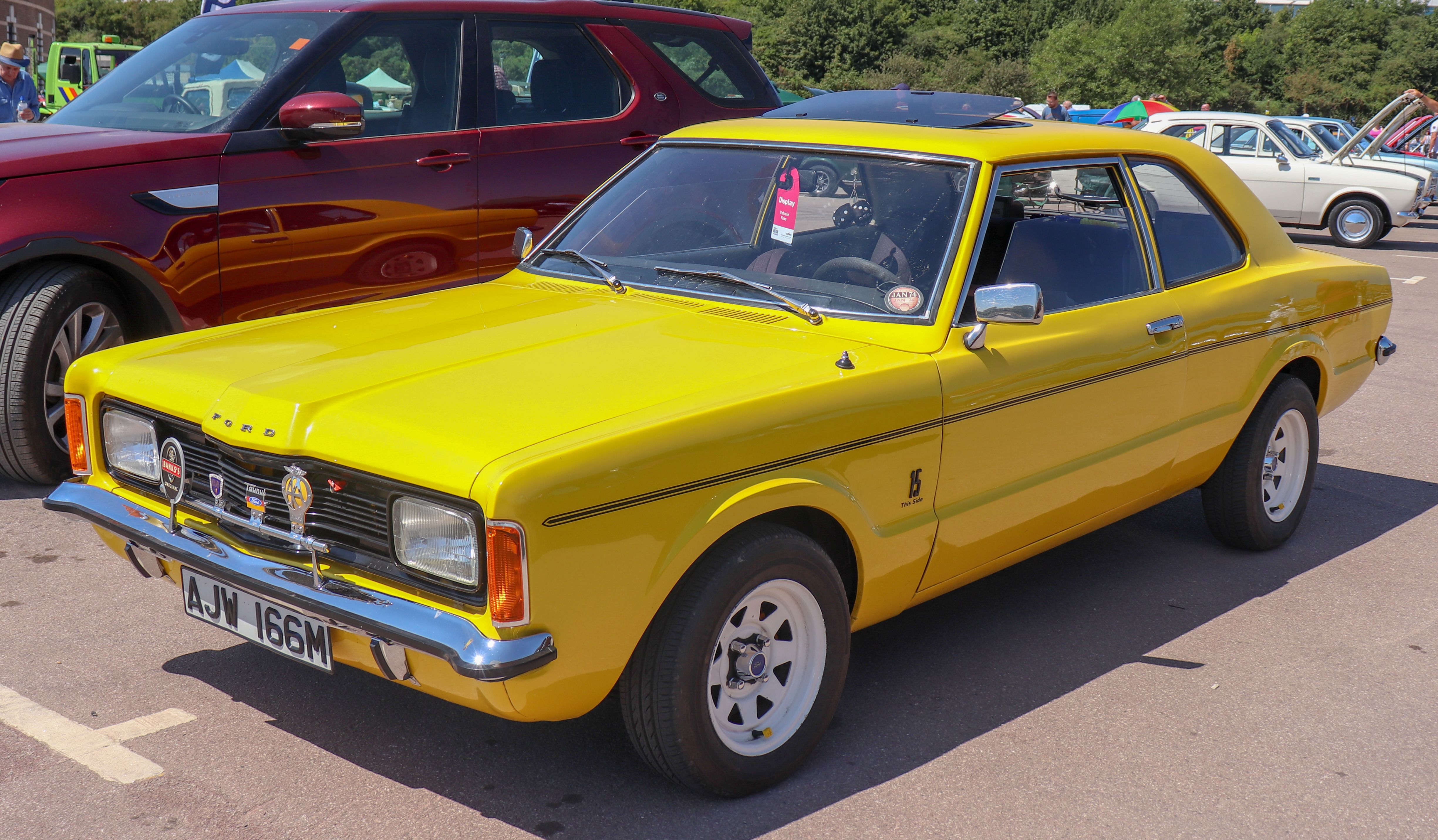 1974 Ford Taunus TC facelift 3.0 Front Taken at the British Motor Museum Old Ford Rally 2018, Gaydon